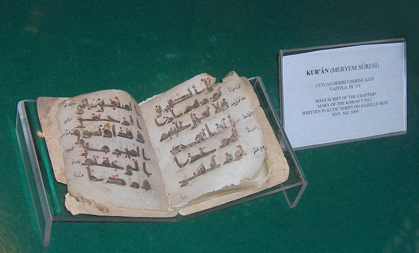 Koran, 9th c.; Manuscript of the Chapter Mary; Kufic script on gazelle skin; Mevlâna mausoleum; Konya, Turkey